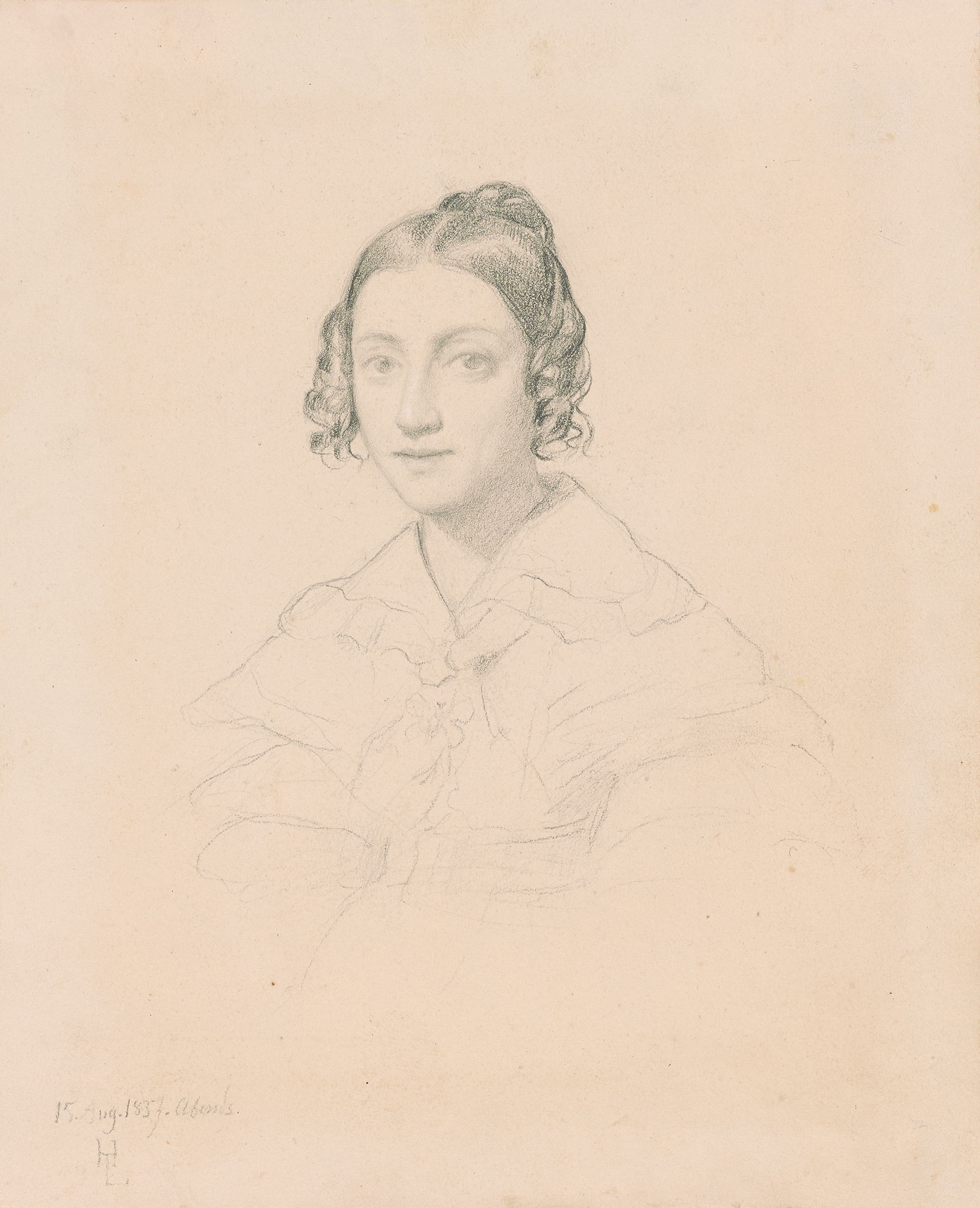 Charlotte Emden Moscheles pencil on paper 18.9 x 15.6 cm inscribed b.l.: 15.Aug.1837.Abends / HL